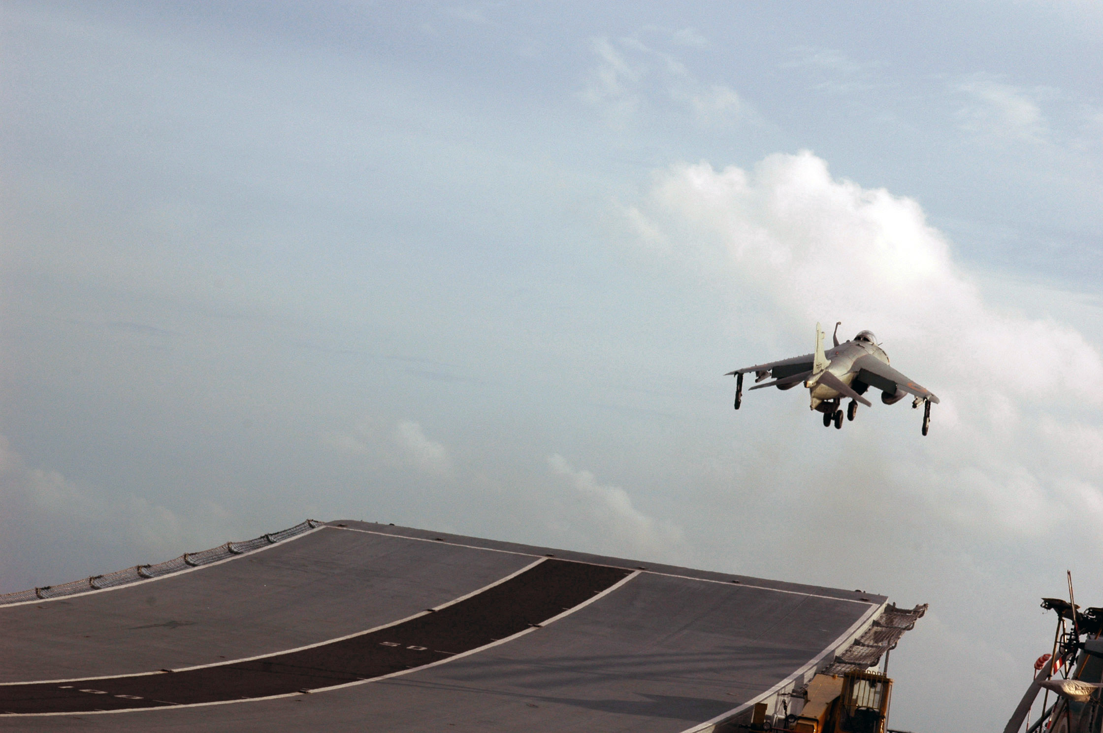 INDIAN OCEAN (Sept. 4, 2007) - A Sea Harrier takes off from the flight deck of Indian Navy aircraft carrier INS Viraat (R 22) during Malabar 2007. Malabar is a multilateral exercise that includes naval forces from India, Australia, Japan, Singapore, and the United States. It is designed to increase interoperability among the navies and to develop common procedures for maritime security operations. U.S. Navy photo by Mass Communication Specialist 2nd Class Dustin Q. Diaz (RELEASED)